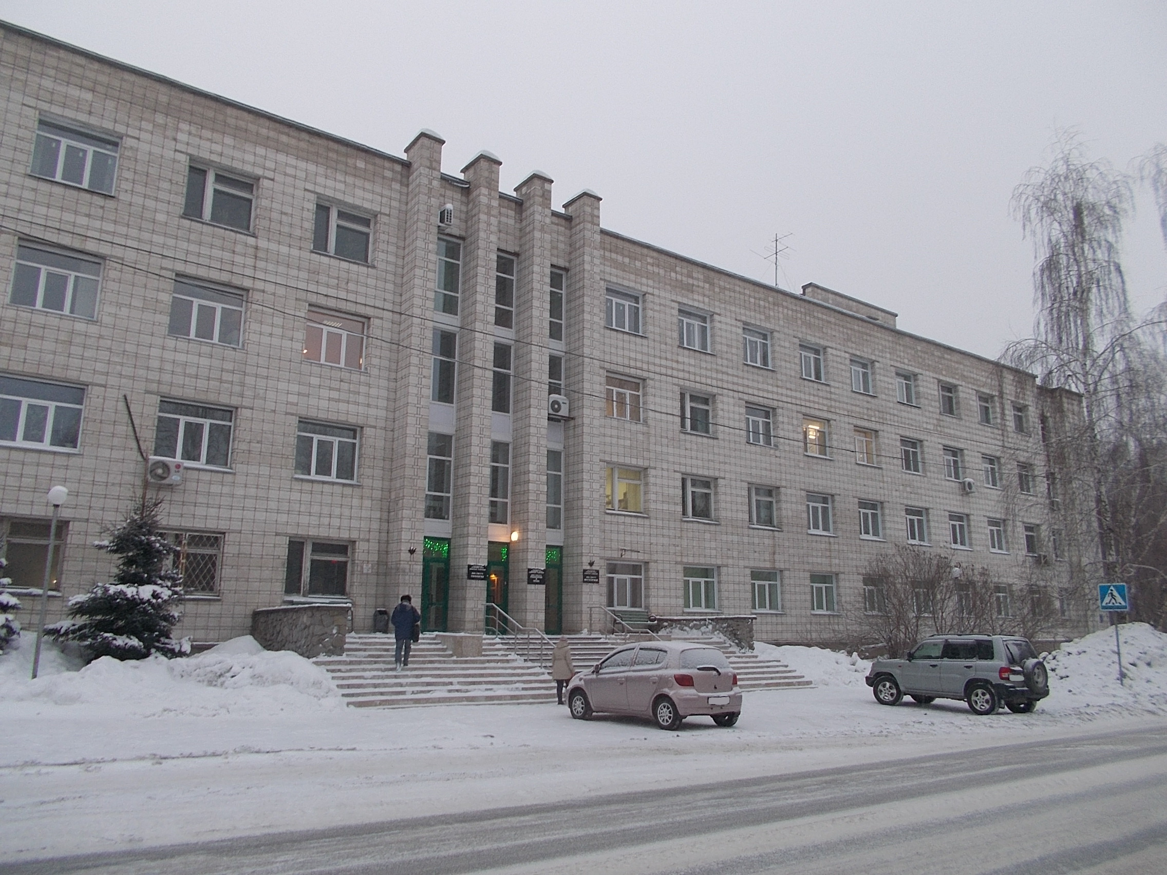 Institute of history of Siberian Branch of Russian Academy of Sciences (2016)